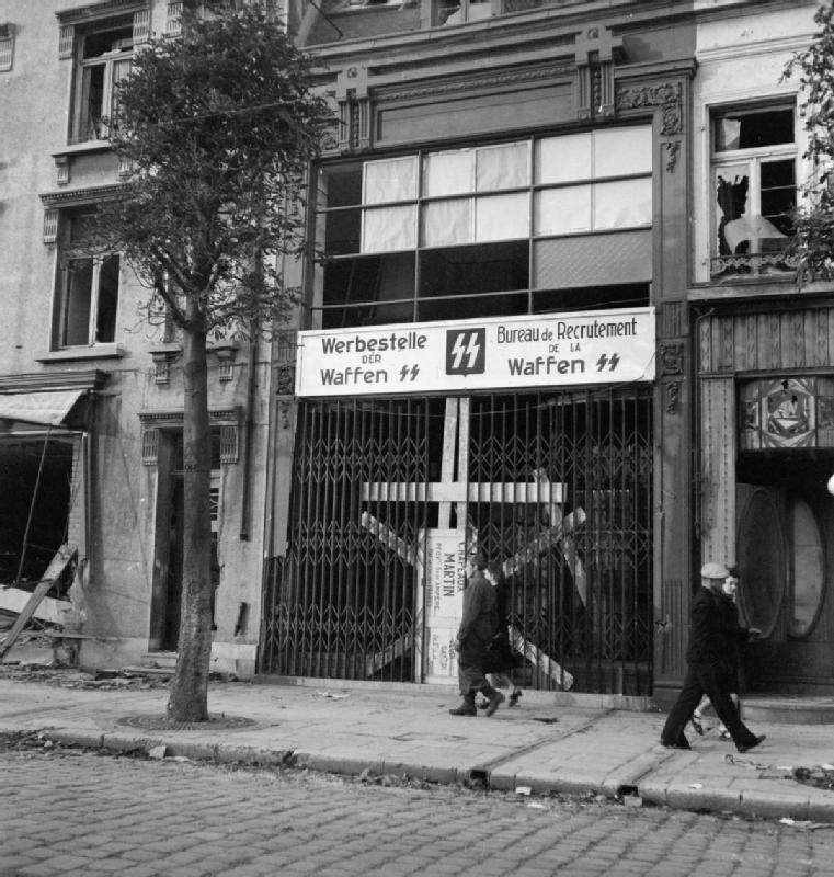 The Schutzstaffeln (ss) Recruiting office of the Waffen SS in Calais. 12 November 1944.